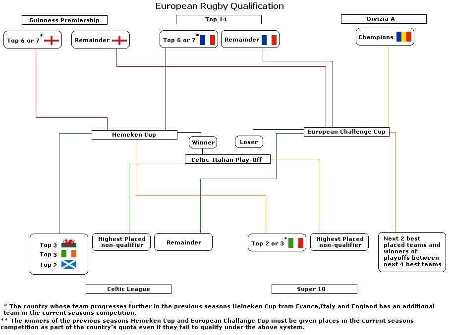 Diagram of how qualification for European Club Rugby competitions is obtained.